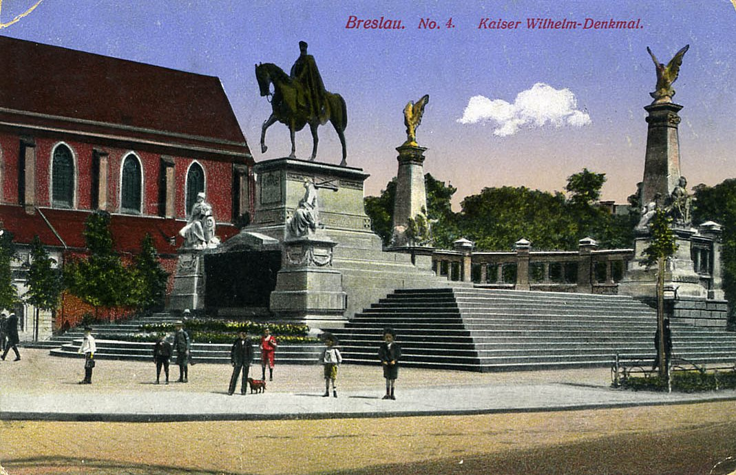 Monument_of_Wilhelm_I_of_Germany_in_Wroclaw